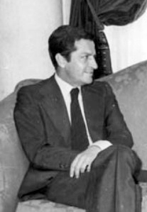 Visit to Spain. With the prime minister Adolfo Suárez González.